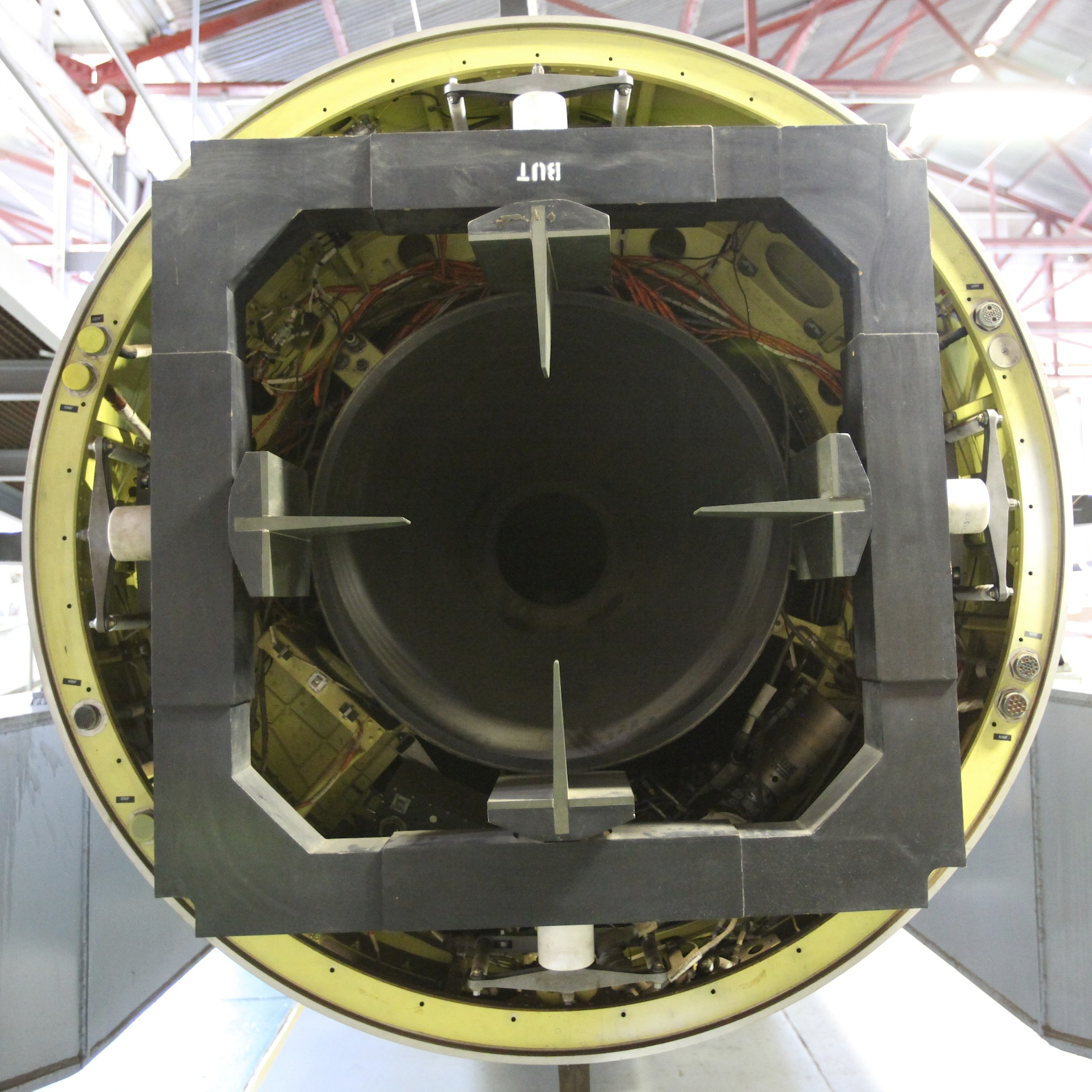 Rocket nozzle on the first stage of a RSA-3 Leo Rocket